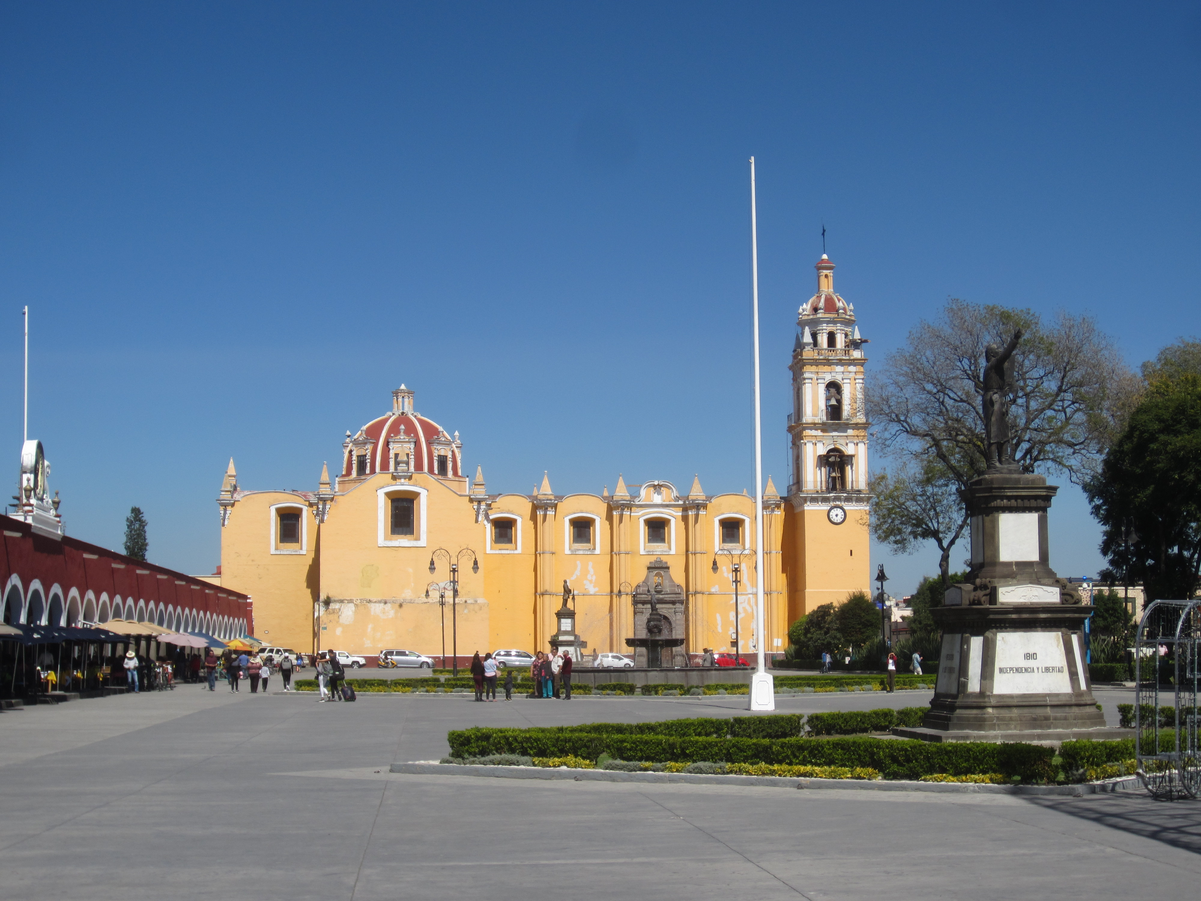 Cholula, Puebla, Mexico (2018)